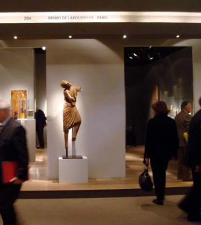 View of the stand of a Parisian art dealer at the art fair TEFAF 2011 in Maastricht, the Netherlands.